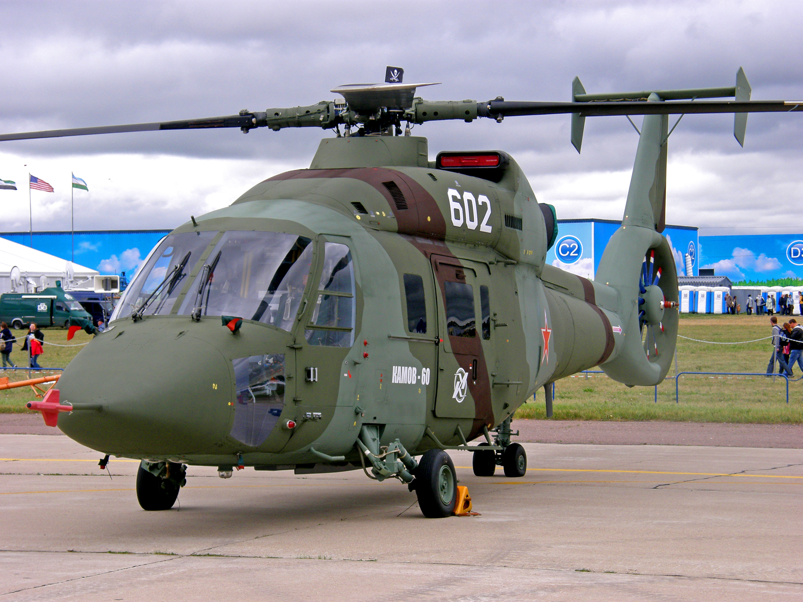 The Kamov Ka-60 (Russian: Ka-60 "Касатка" / "Orca"), also known as "Kasatka" is a Russian Air Force helicopter that first flew 24 December 1998. The Ka-60 has an estimated local military market of 200 units (Army aviation units, Border Police and Ministry of Internal Affairs). Intended as a replacement for the Mil Mi-8, the Ka-60 is to be used for reconnaissance, for transporting air-assault forces, radio-electronic jamming, for special-operations missions and for various light-transport missions. Variations for foreign sale are expected. Manufacture is to take place at Ulan-Ude. General characteristics * Crew: Two * Capacity: Up to 16 infantry troops or 6 stretchers * Length: 15.60 m (51 ft 2 in) * Rotor diameter: 13.50 m (44 ft 3 in) * Height: 4.20 m (13 ft 9 in) * Loaded weight: 6,750 kg (14,850 lb) * Useful load: 2,750 kg (external) (6,050 lb) * Max takeoff weight: 6,750 kg (14,850 lb) * Powerplant: 2× Rybinsk RD-600V turboshafts, 956 kW (1,282 shp) each * * Fuselage width : 2.50 m (8 ft 2 in) * Tail rotor diameter: 1.2 m (4 ft 6 in) Performance * Maximum speed: 300 km/h (162 knots, 185 mph) * Cruise speed: 270 km/h (145 knots, 166 mph) * Range: 615 km (332 NM, 380 mi) * Service ceiling: 5,100 m (16,730 ft) * Rate of climb: 10.4 m/s (2,047 ft/min) at sea level